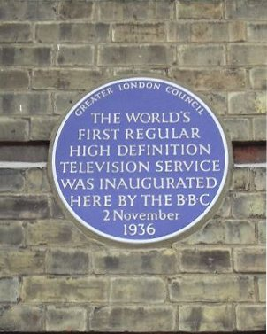 I took the photo myself.